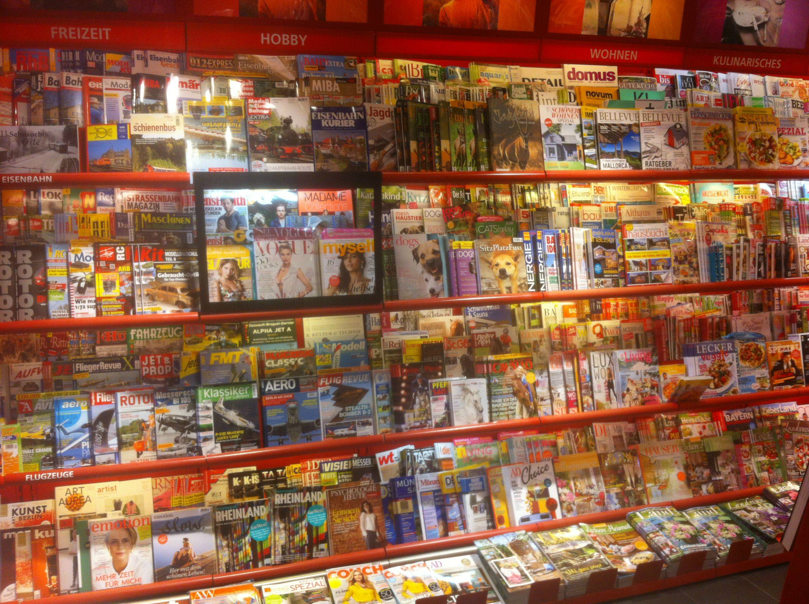 A part of german press publishing.